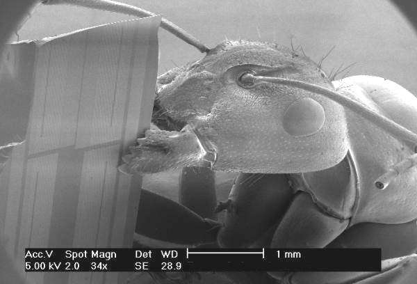 Scanning Electron Microscope image of a Carpenter Ant